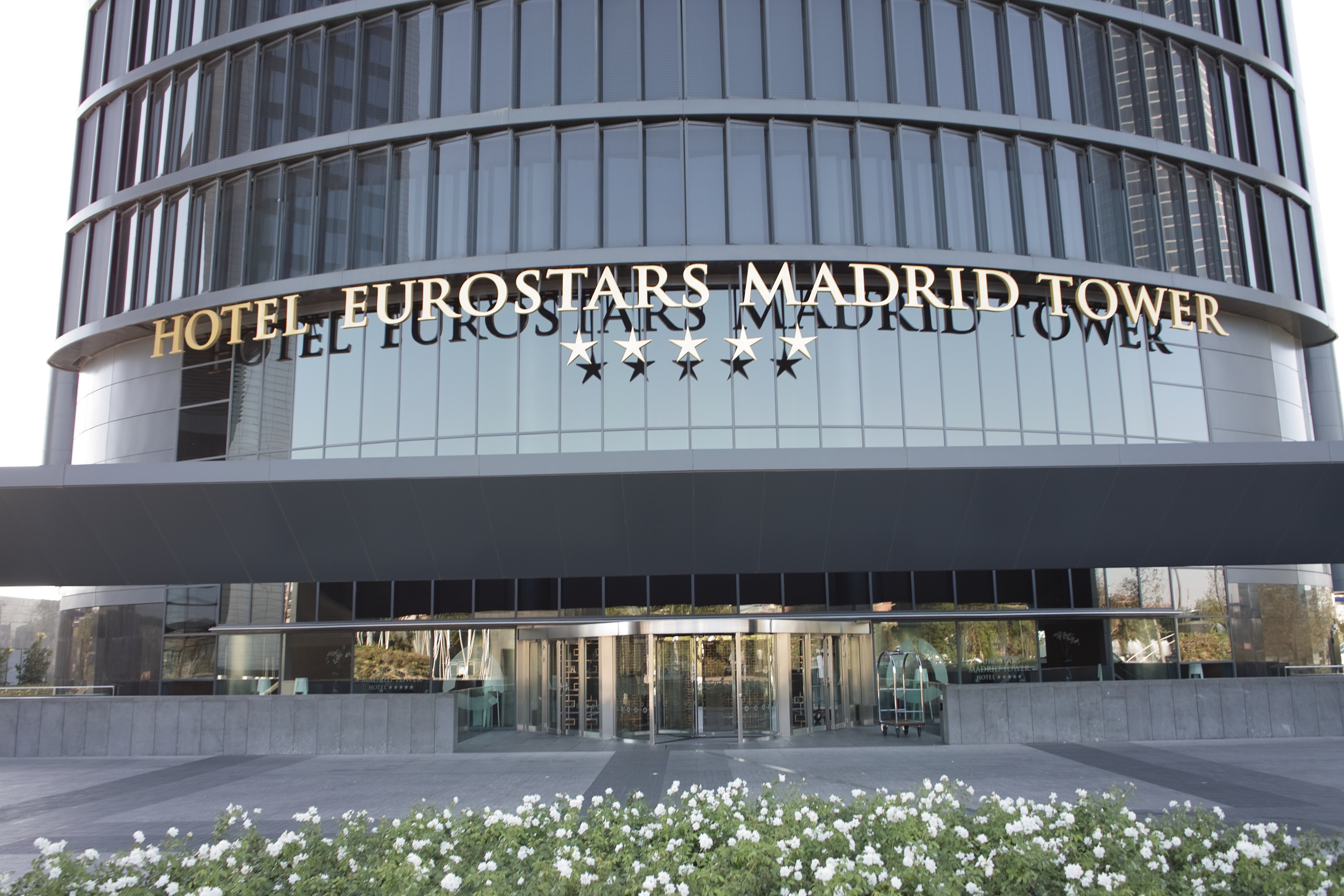 Hotel Eurostars Madrid Tower